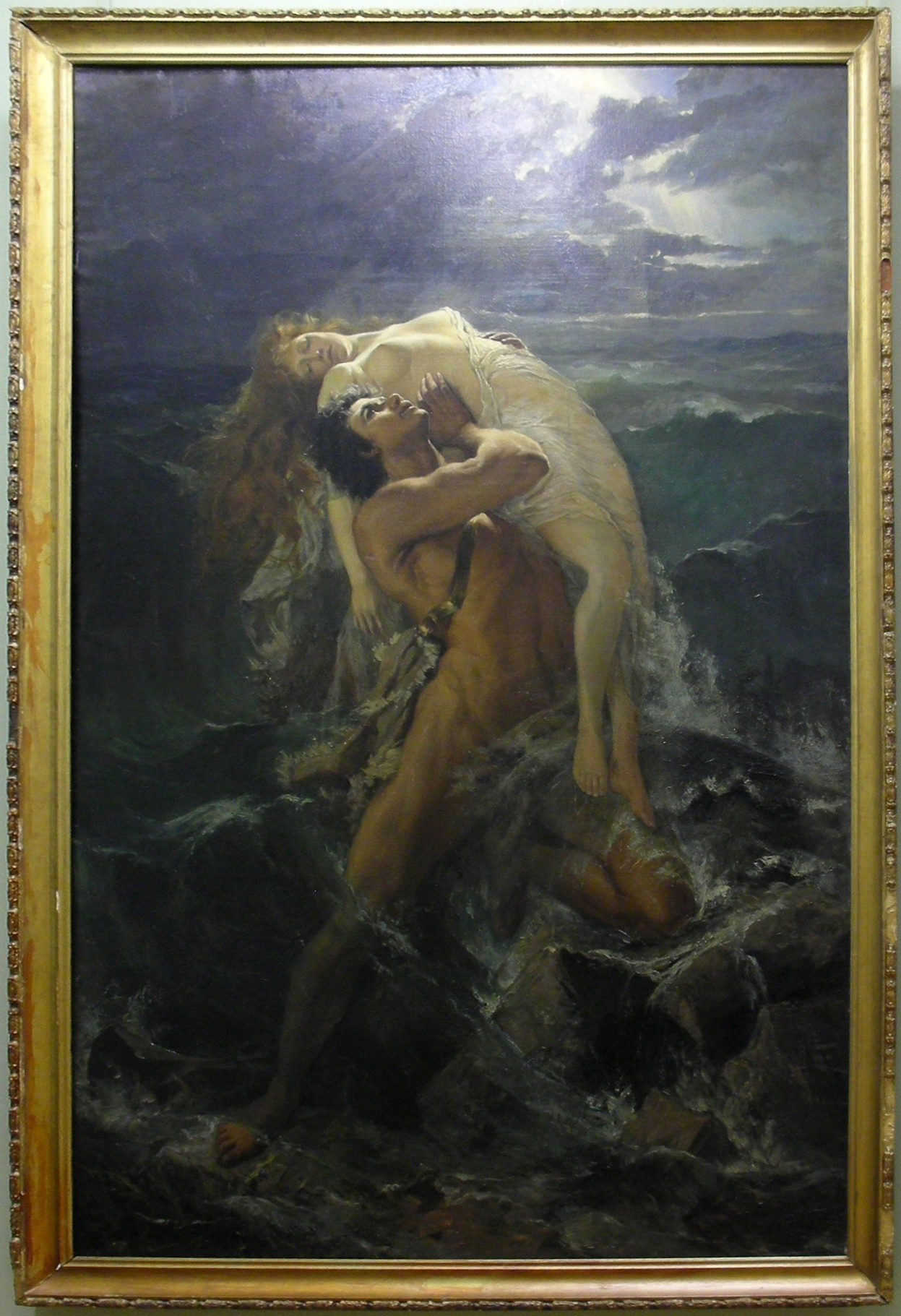 The Flood